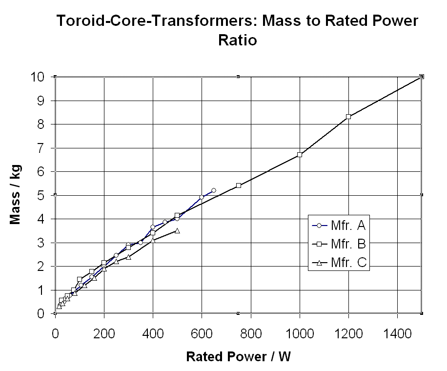 power/mass ratio of some mains transformers from 3 different manufacturers